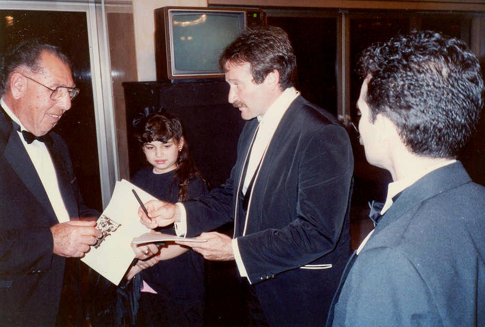 Photo taken at the 62nd Academy Awards 3/26/90